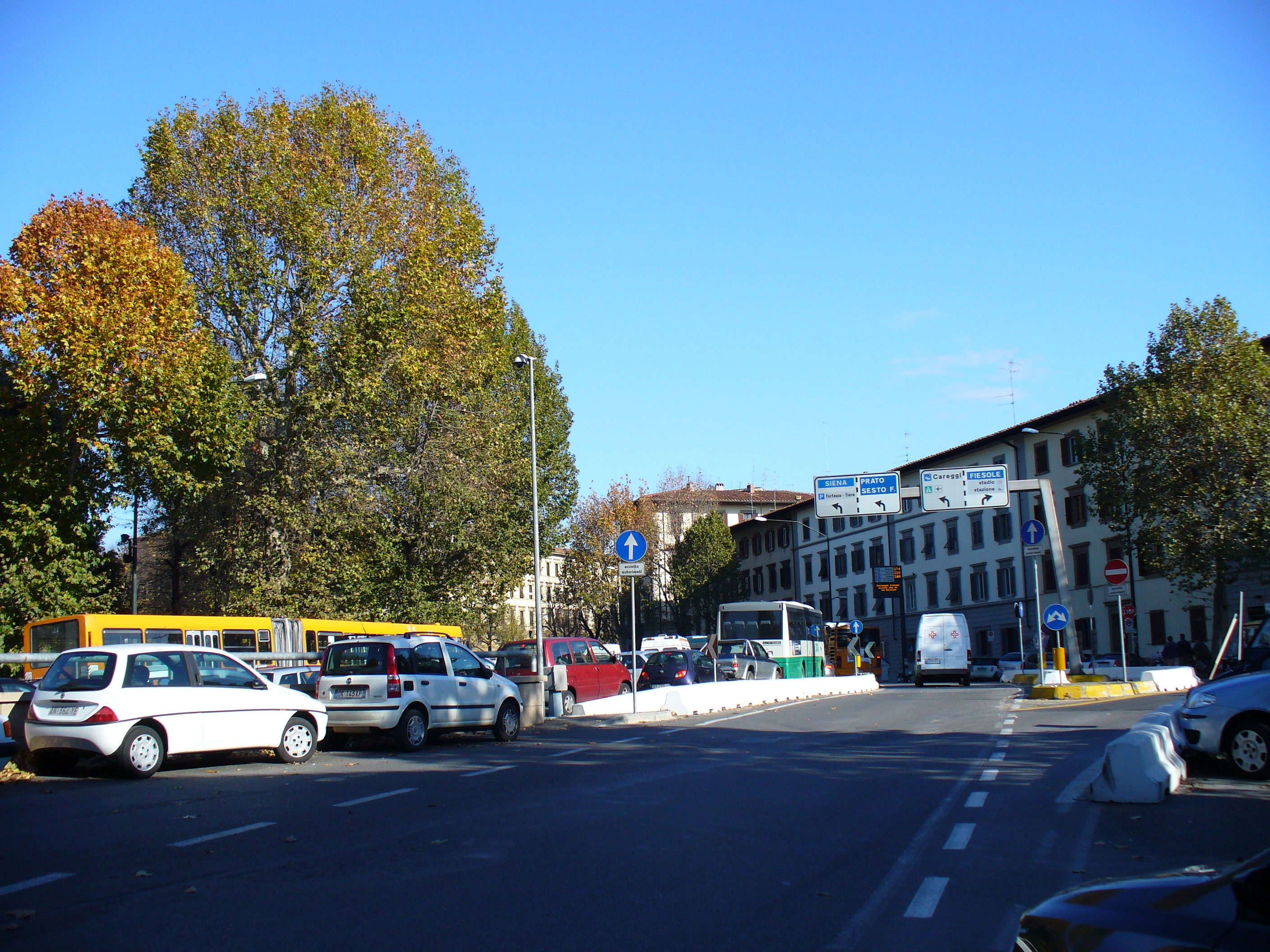 Viale Filippo Strozzi (Florence)